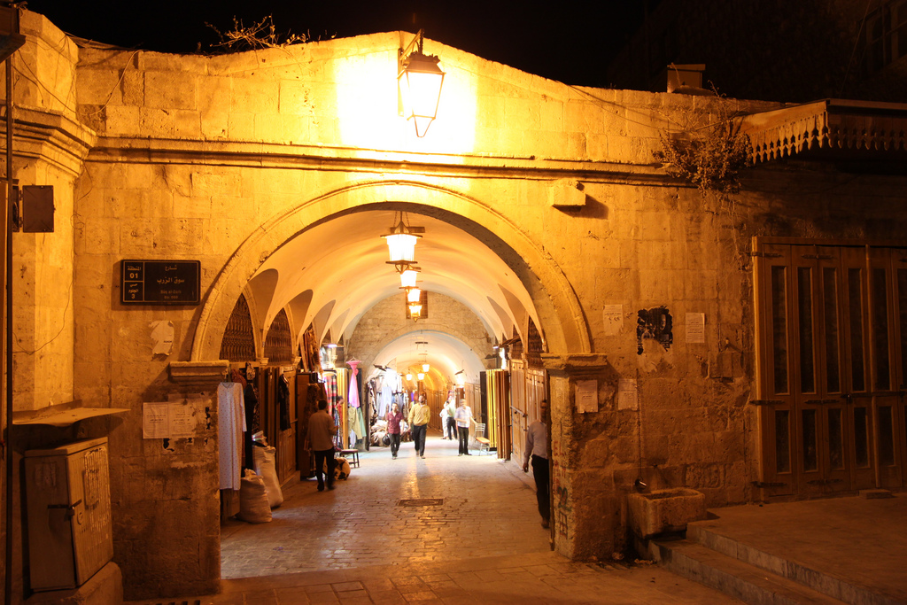 Aleppo, Souk Al Zirb